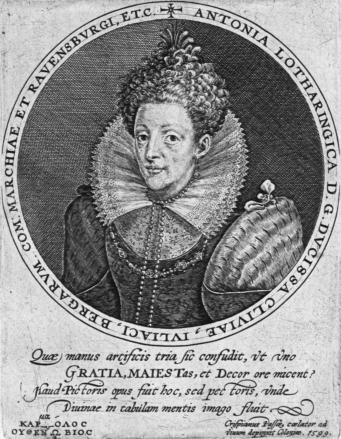 Portrait of Antoinette de Lorraine (1568-1610), Duchess of Jülich-Cleves-Berg